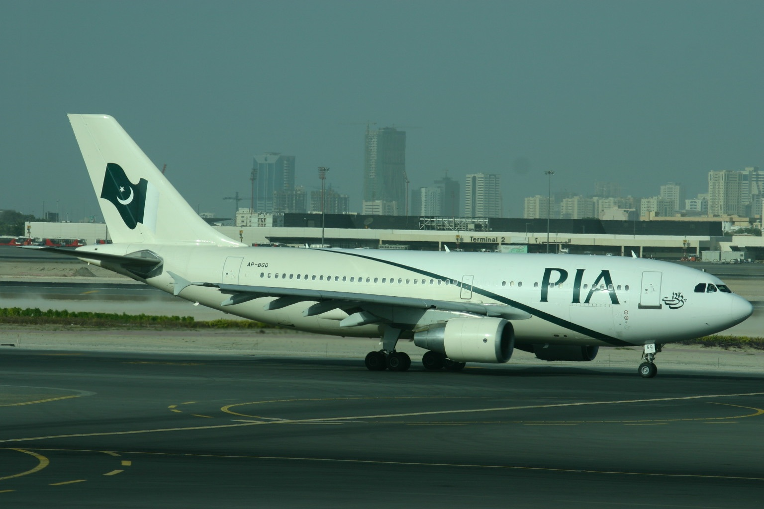 At Dubai